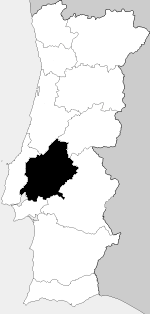 Former province of Ribatejo, Portugal Created by User:Brian Boru in September 2005, based on a map created by Jorge Candeias.